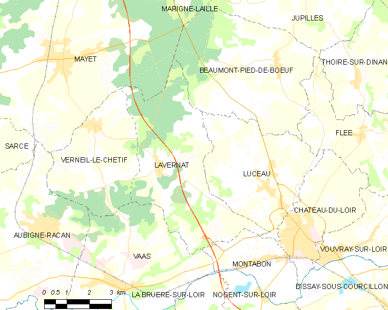 Map of French municipality